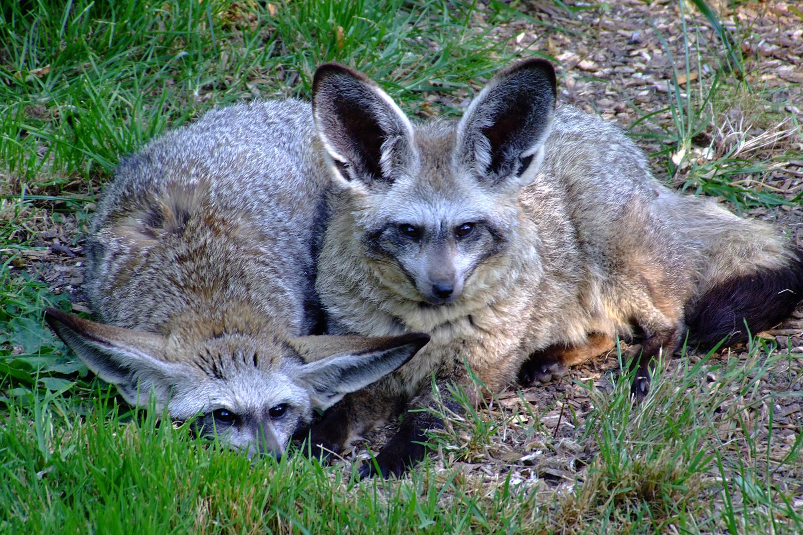 Bat-eared foxes at Marwell Wildlife, Hampshire, England.